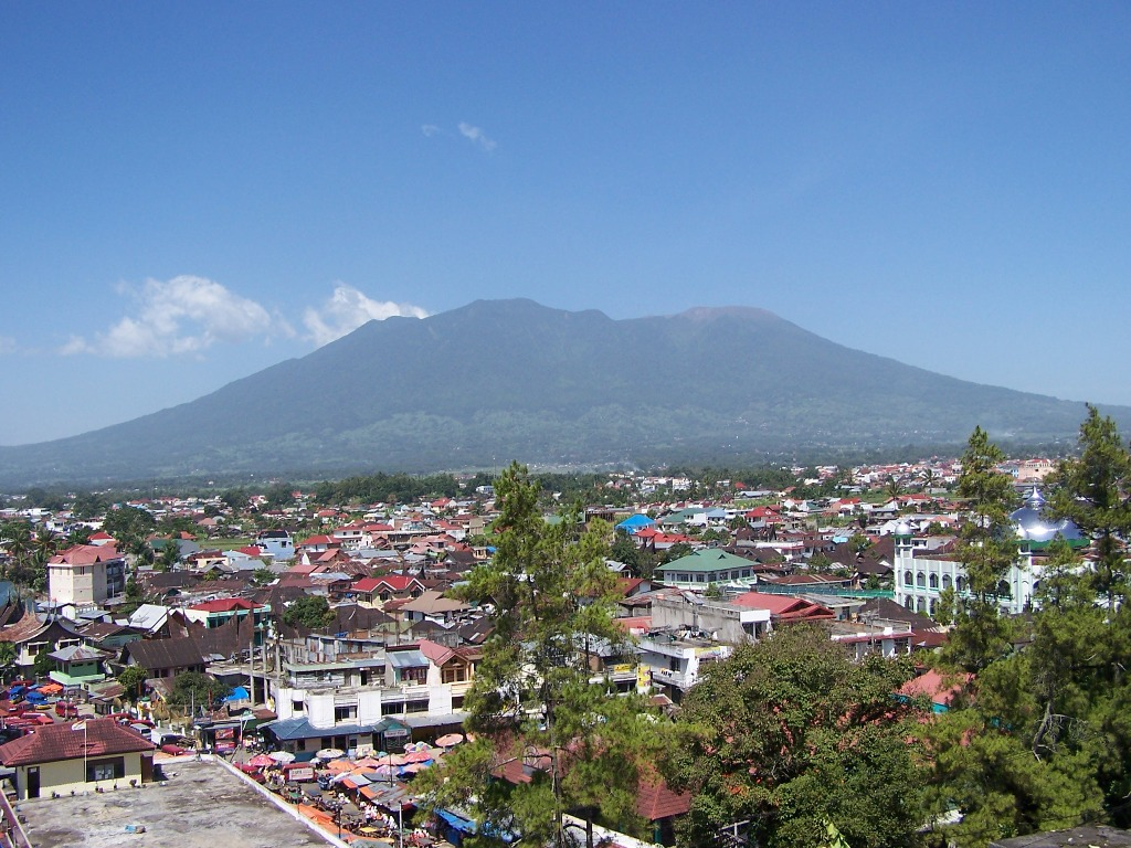 Mount Merapi and Bukittinggi. (Courtessy: Hanafi, taken in June 2005, all rights released for public domain) faizul hadi